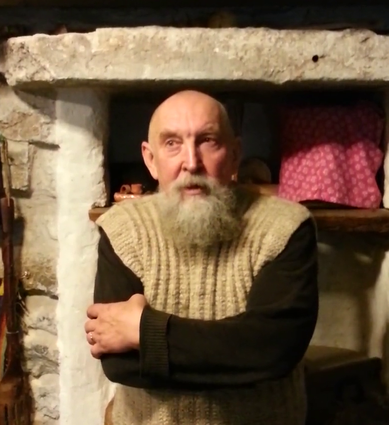 Anatoly Ljutjuk of the Ukrainian Cultural Center in Tallinn, Estonia